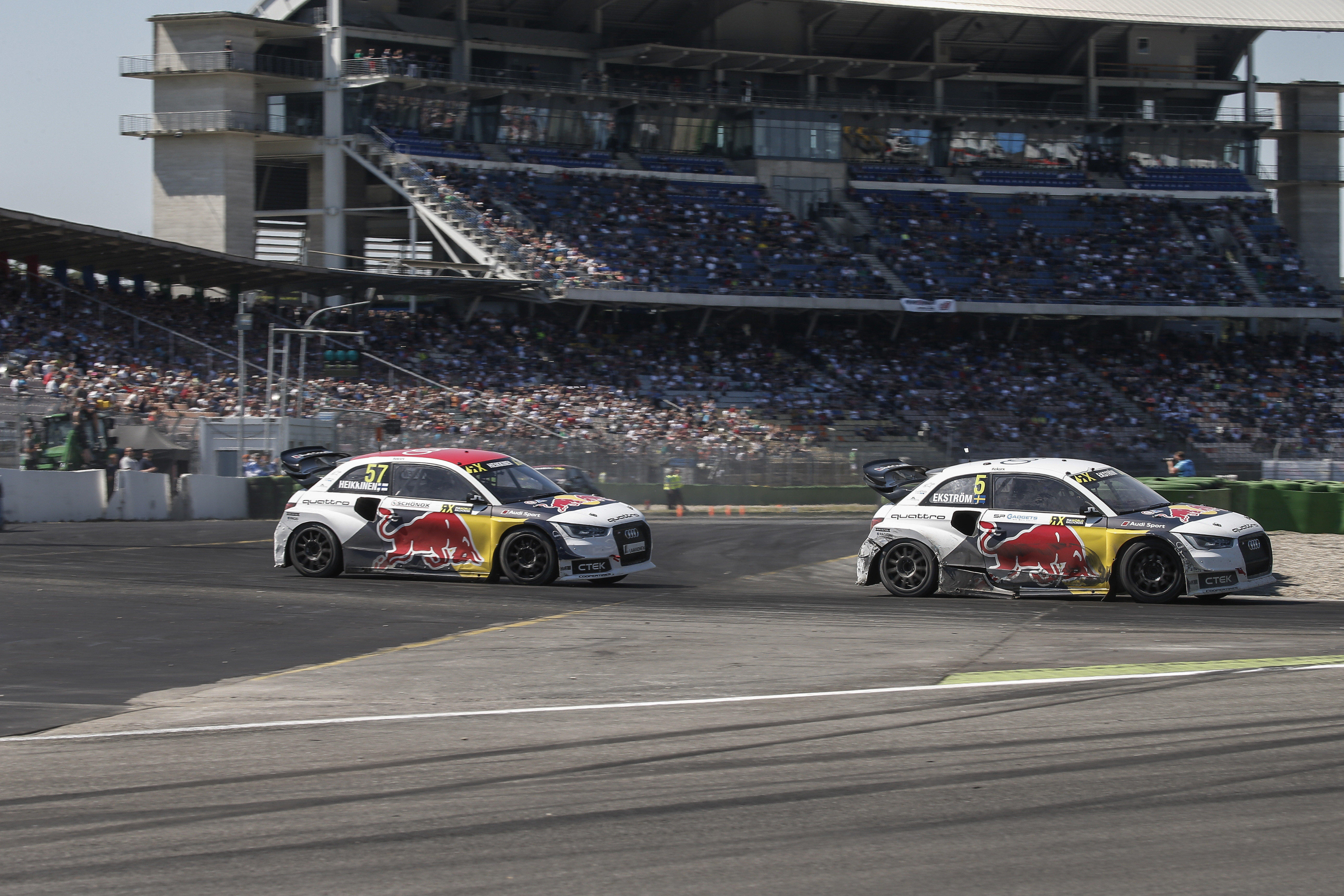 2016 FIA World Rallycross Championship // Round 02 // Hockenheim // 6-8 May, 2016 // Worldwide Copyright: EKS/McKlein